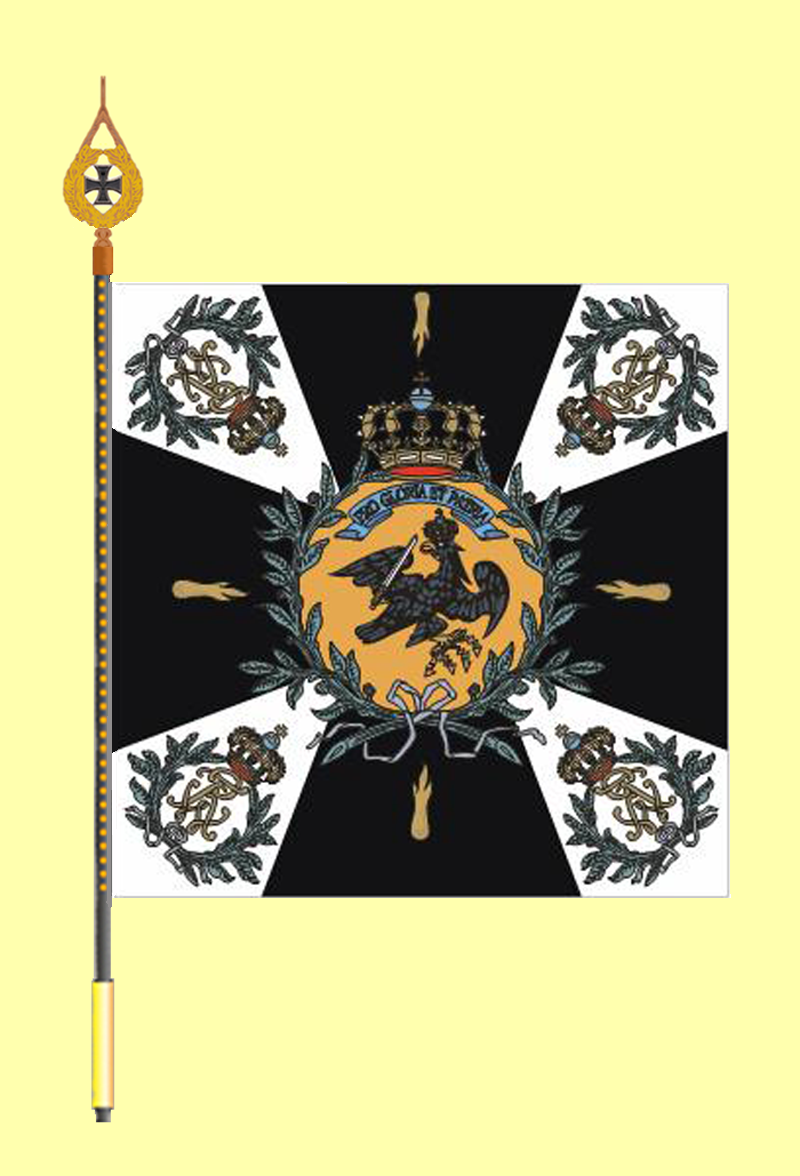 Colors of the prussian 32nd Infantry Regiment